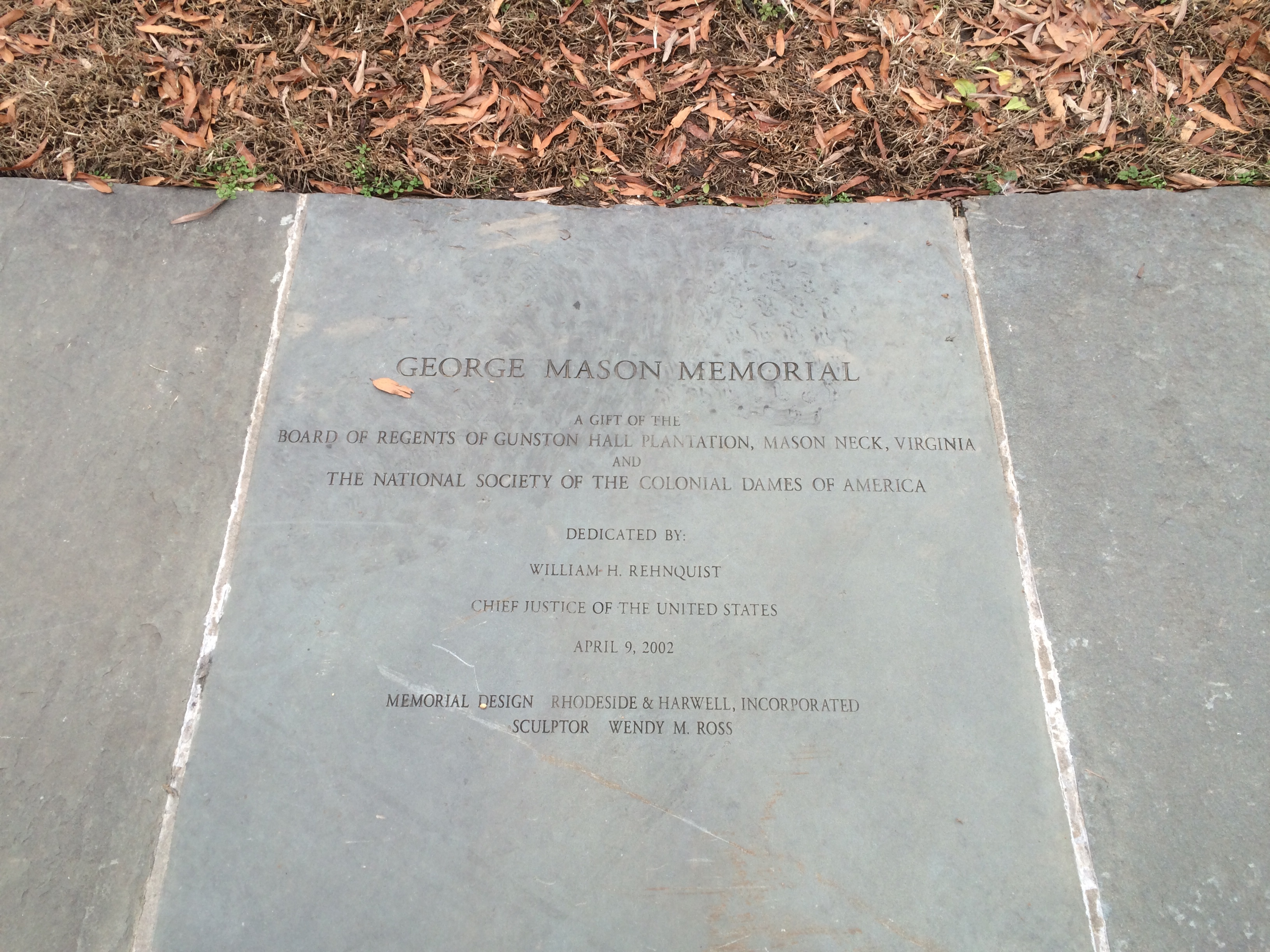 Inscription of the George Mason Memorial in Washington, D.C.